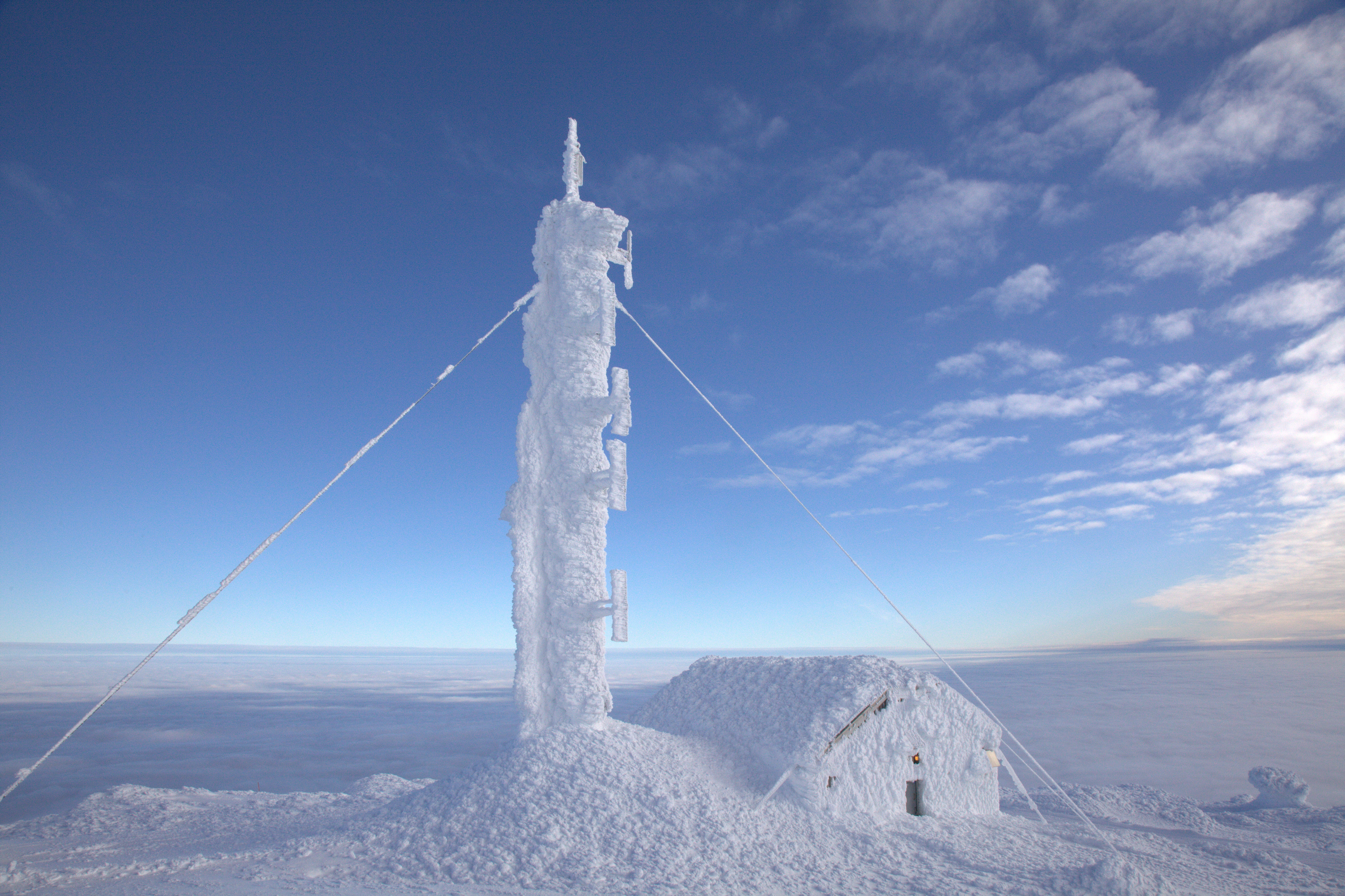 Communication mast at Åreskutan